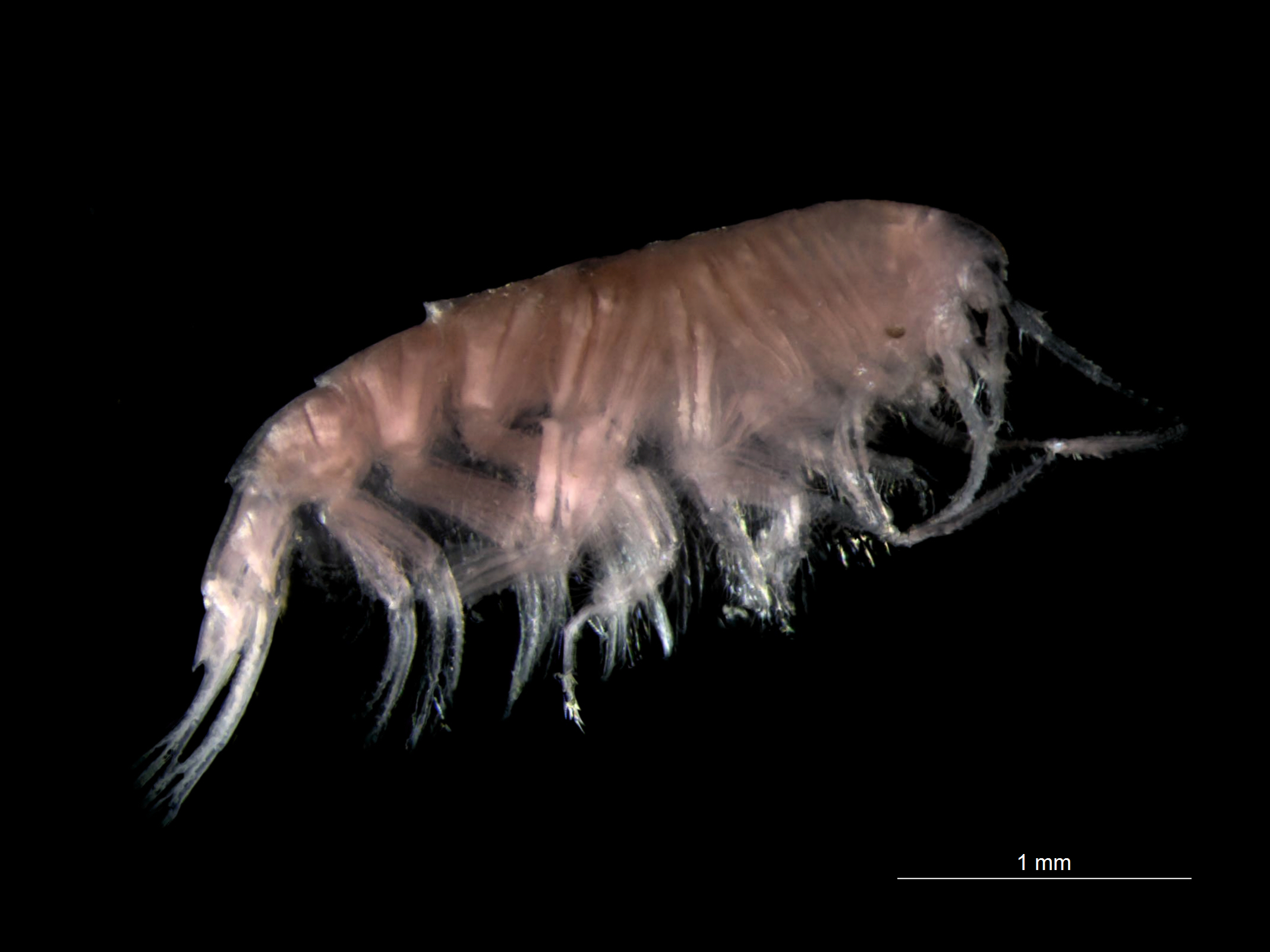 Amphipod with a short, pointed down-turned rostrum. Sampled on mid-sized sediments on the Northern part of the Buitenratel at 51°18′18″N 2°35′38.4″E / 51.305°N 2.594°E on the Belgian part of the North Sea in 2011. Length: ~4 mm